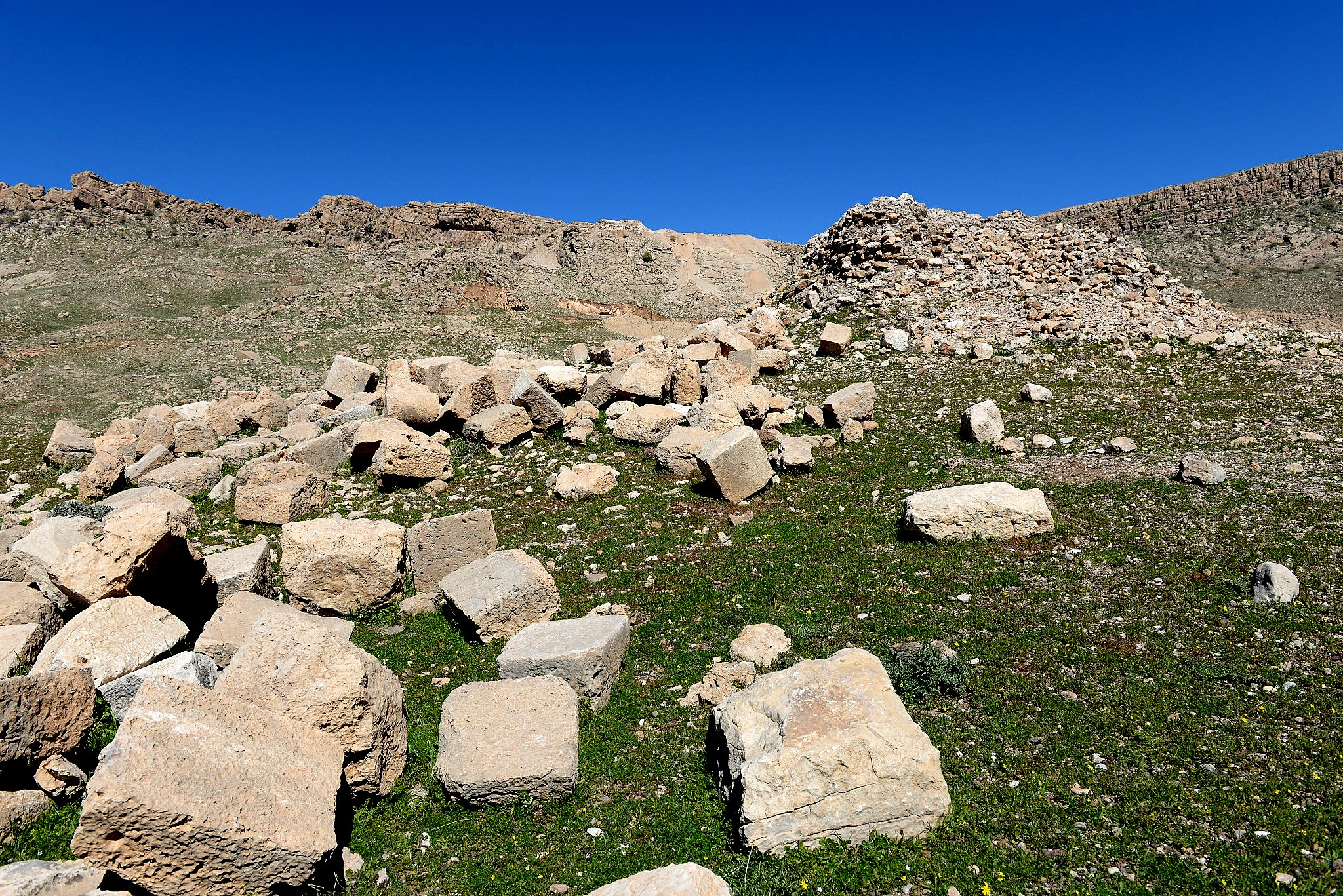 Non-inscribed stone blocks scattered around the Paikuli Tower. These were used in the construction of the tower. They bear no inscriptions. Sulaymaniyah Governorate, Iraq.